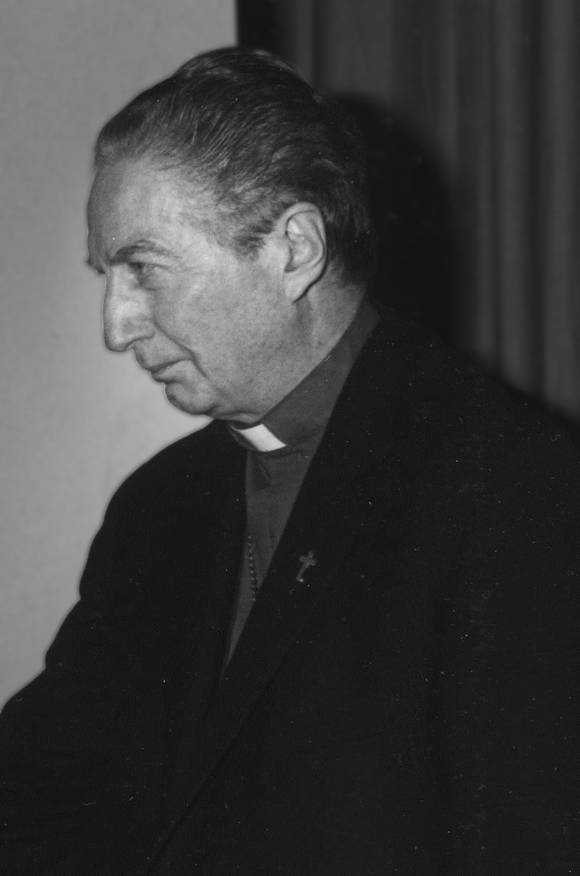 Cardinal Carlo Maria Martini at World Economic Forum Annual Meeting, 1992.